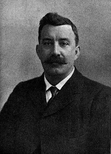 James Anderson, General Secretary of the Amalgamated Stevedores' Labour Protection League, member of the Port of London Authority, future General Secretary of the National Transport Workers' Federation.